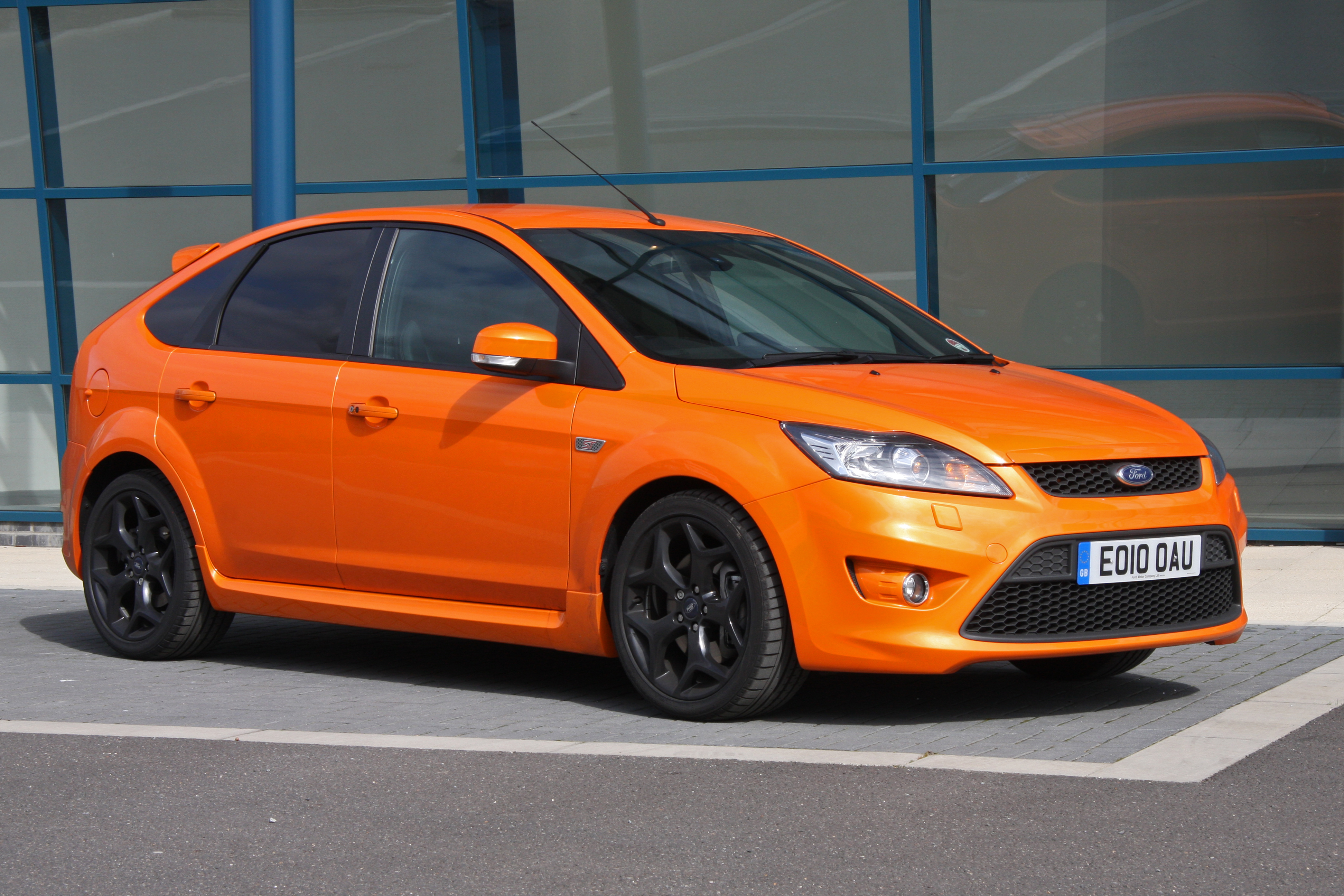 New toy